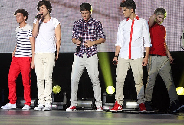 One Direction performing "What Makes You Beautiful" at Hordern Pavilion, Moore Park, Sydney, Australia